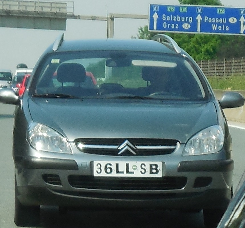 Export license plate of the Netherlands, highway A1 in Austria